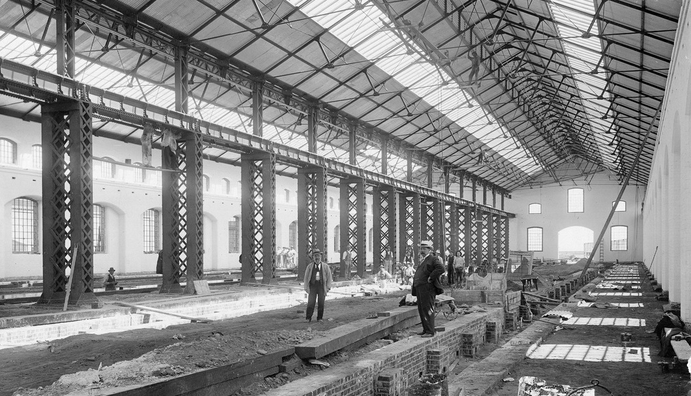 A view of the interior of a very large building under construction, titled on the mount board as "Erecting Shop, Islington, Dec 1902. L.J. Leahy contractor". Several men are standing facing the camera and one man is high in the roof trusses. This building was where the South Australian Railways assembled locomotives and rolling stock.